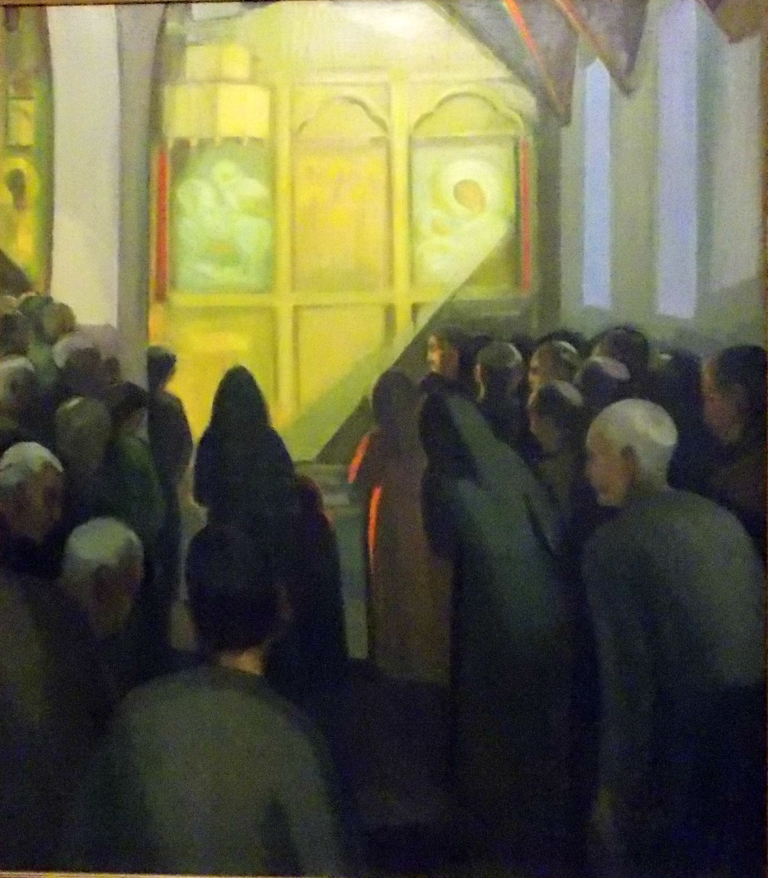 Leventis Gallery, Nicosia, Cyprus. Telemachos Kanthos - At the Church of St George. Oil on canvas